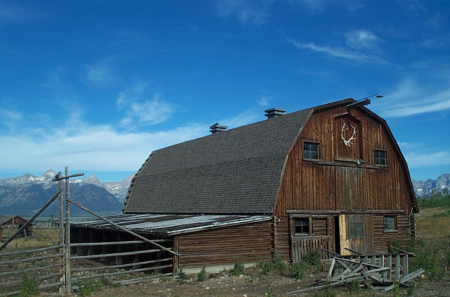 Hunter Hereford Ranch barn, Grand Teton National Park, Wyoming, USA